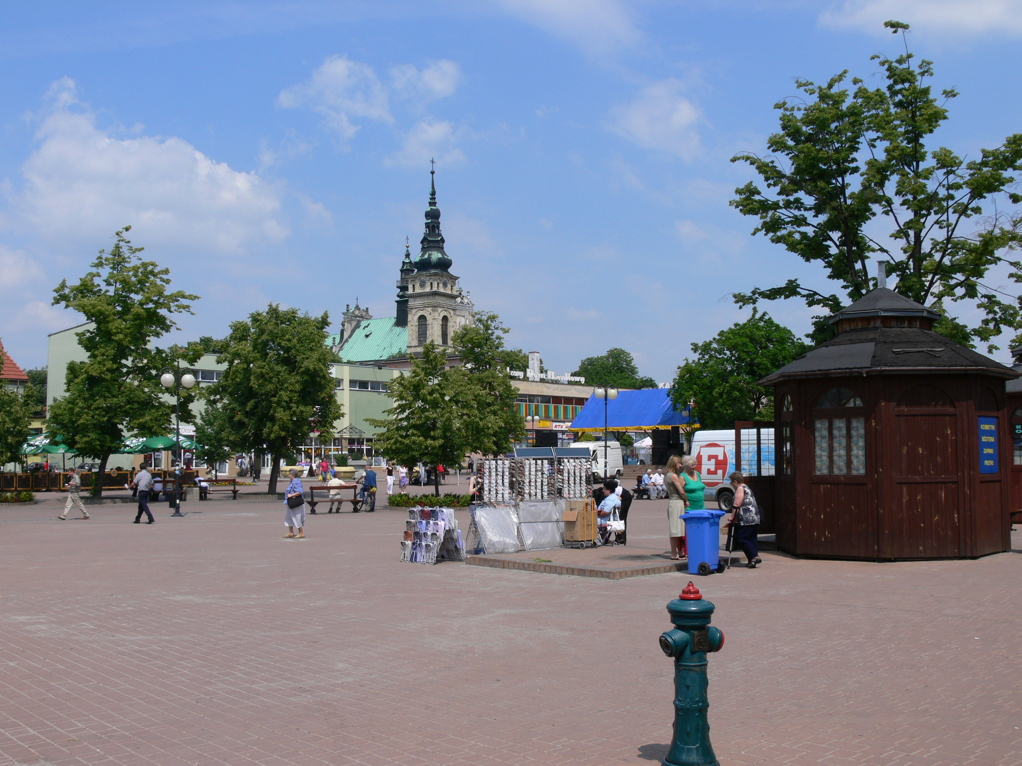 Photograph of Tarnobrzeg Main Square.